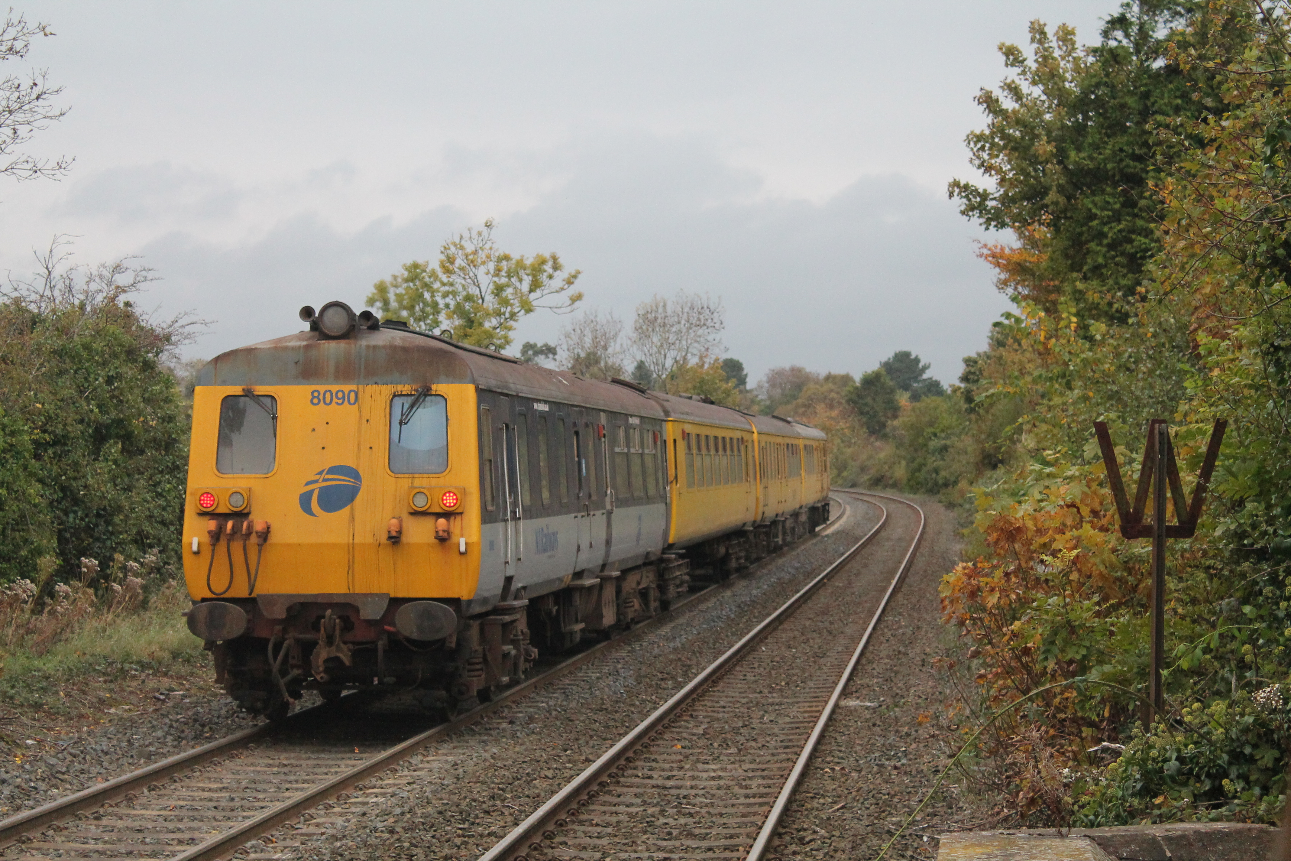 80 Class Sandite Train at Helen's Bay station